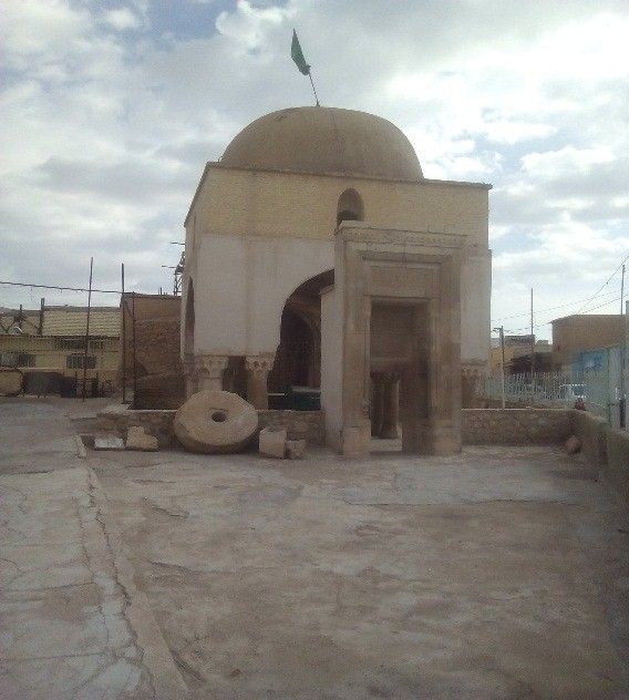 Tomb of Sheikh Yoosof Sarvestani